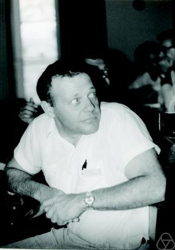 Richard Kadison, Nice 1970